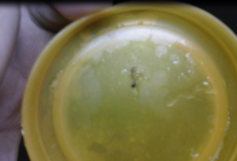 Golden ant native to Punjab , Pakistan Image has been uploaded by Umer Farooq who is the copyright hoder of the image. Image has been uploaded for biological works. Animal detail: 1.Animalia 2.Invertebrate 3.Arthropoda 4.Insecta Golden ant with length of 1 cm The specimen is dead and is placed in a yellow coloured round box which on its surface contain mixture of wex and saliva. The roud box is in the hand of Biologist working o the specimen. The current honour institue of the specimen is FAROOQ INSTITUTE OF BIOLOGICAL RESEARCH.